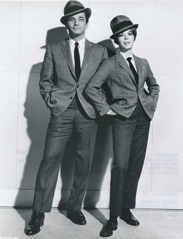 Peter Falk and Natalie Wood in Penelope, 1966. Original, vintage 1966 8x10 photo issued by MGM studio for the film PENELOPE. The original studio description is on the rear of the photo